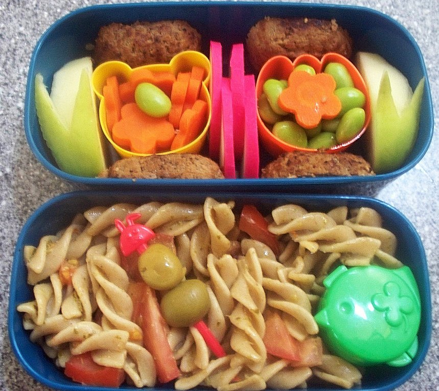 Okay, so I cheated on the pasta :P Bought a container of pesto from Trader Joe's for $2.69 and a packet of whole wheat pasta with flax seeds added for 99cents. I was extremely surprised at the high protein and fiber content of the pasta, as well as the lack of whole- wheat flavour-- definitely a winner :) As for the pesto, I figured it was much costlier (for me) to buy some fresh basil and pine nuts...it's not like I used the whole jar all at once, so I'll call it an investment :) For pesto pasta salads (doesn't that sound soo weird!?) The pasta looked worse than the picture...I guess it was the camera's flash that made it look much brighter? As for the top tier, the notes are self- explanatory ^_^